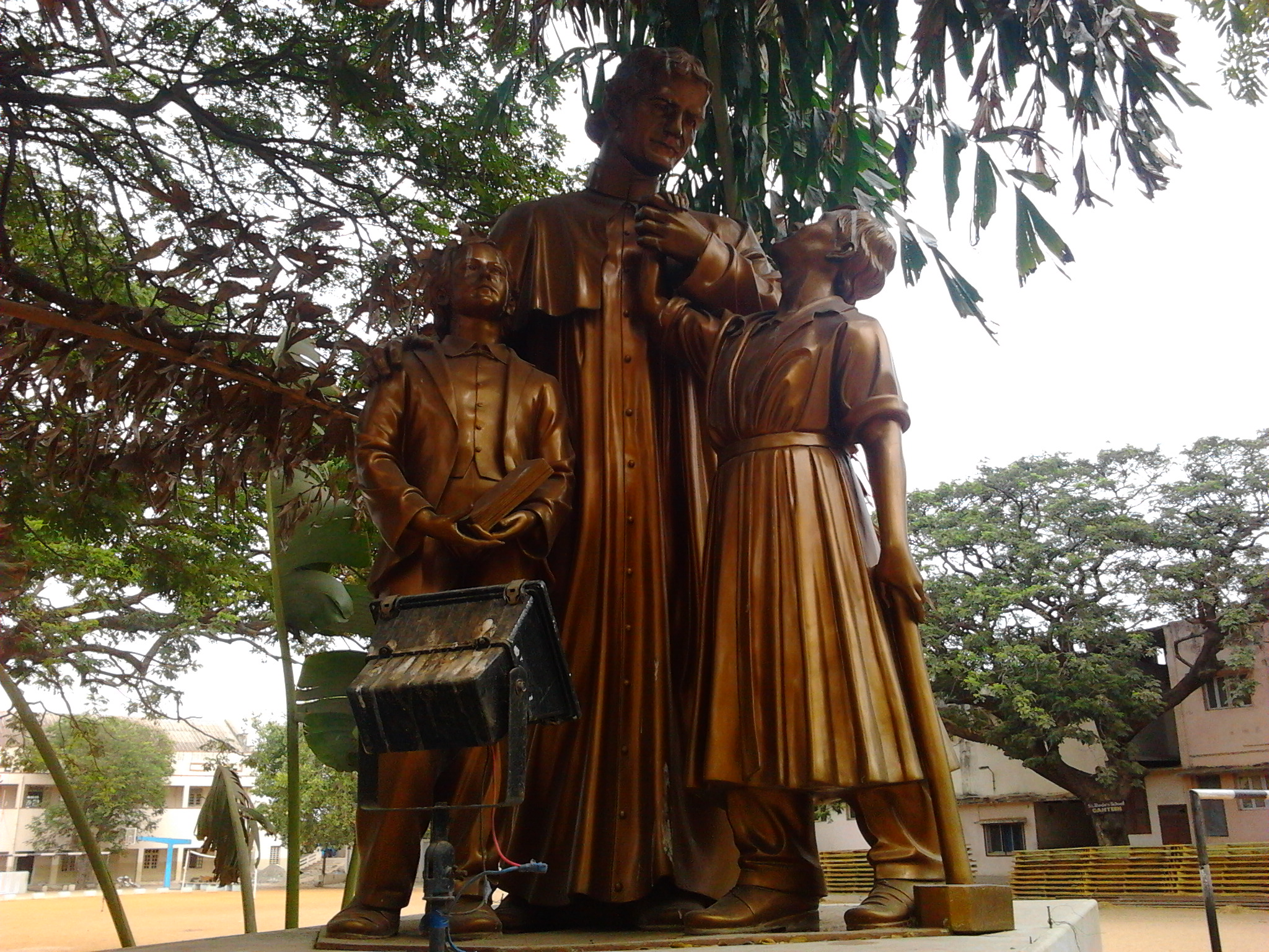 Photoed using Samsung Wave 525.